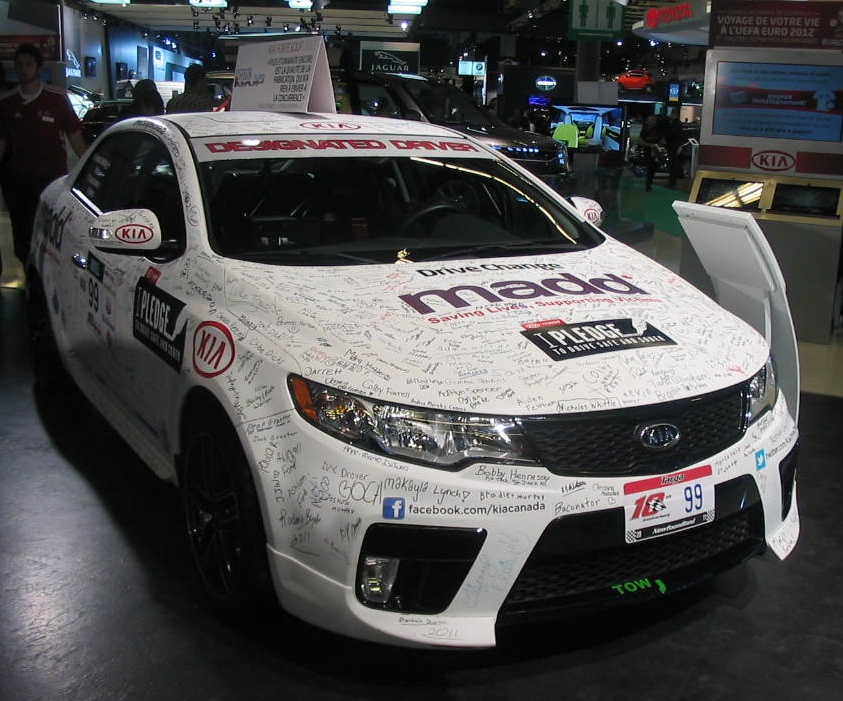 2010-present Kia Forte Koup MADD Canada photographed in Montreal, Quebec, Canada at the 2012 Montreal International Auto Show.